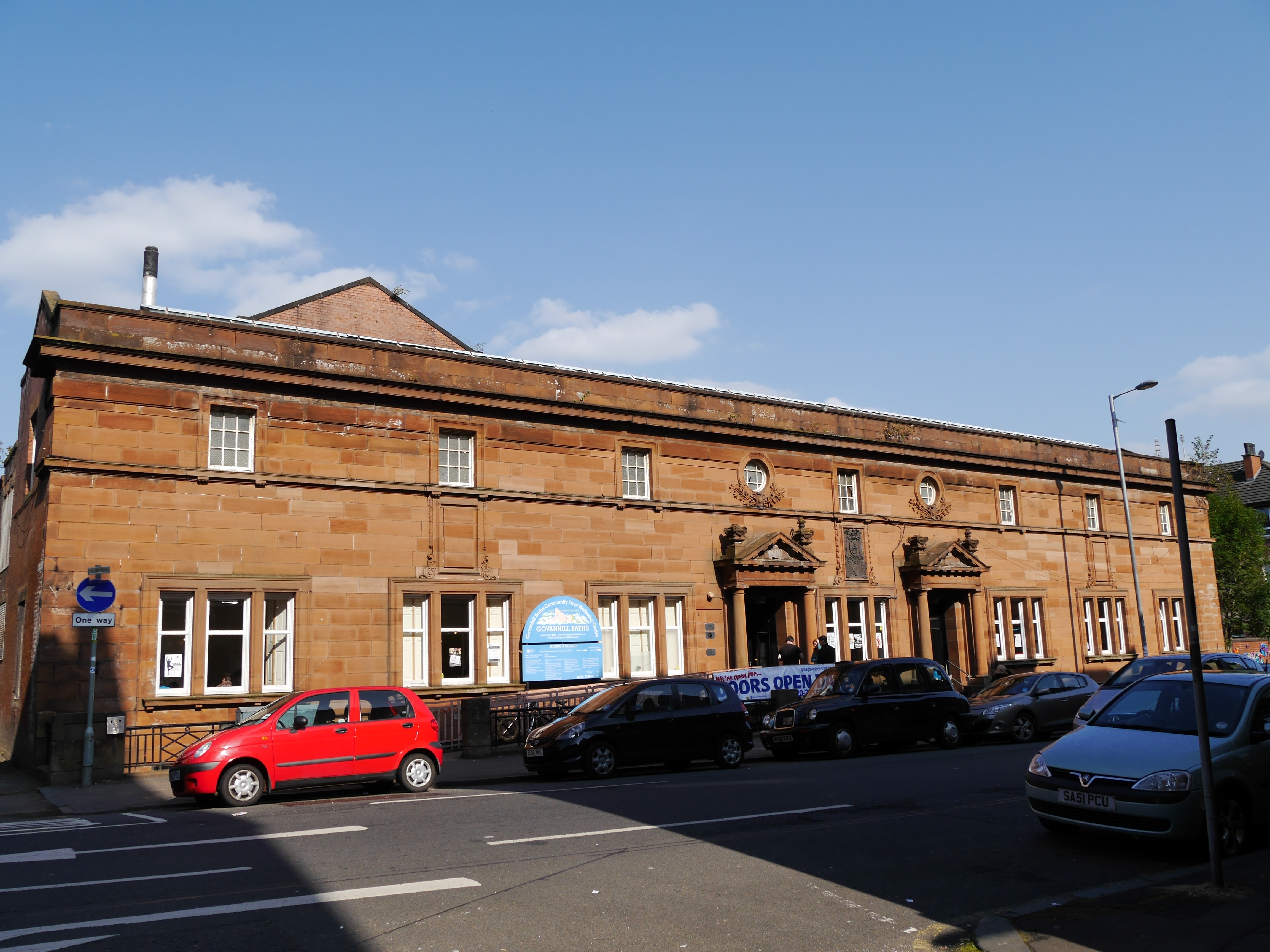 GLASGOW, GOVANHILL, 99 CALDER STREET, CALDER STREET PUBLIC BATHS AND WASHHOUSE Wikidata has entry Q17812575 with data related to this building.